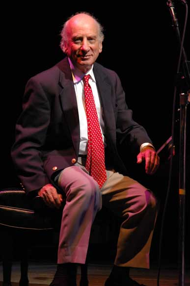 Dick Hyman at Oregon Festival of American Music 2005. Eugene, OR.